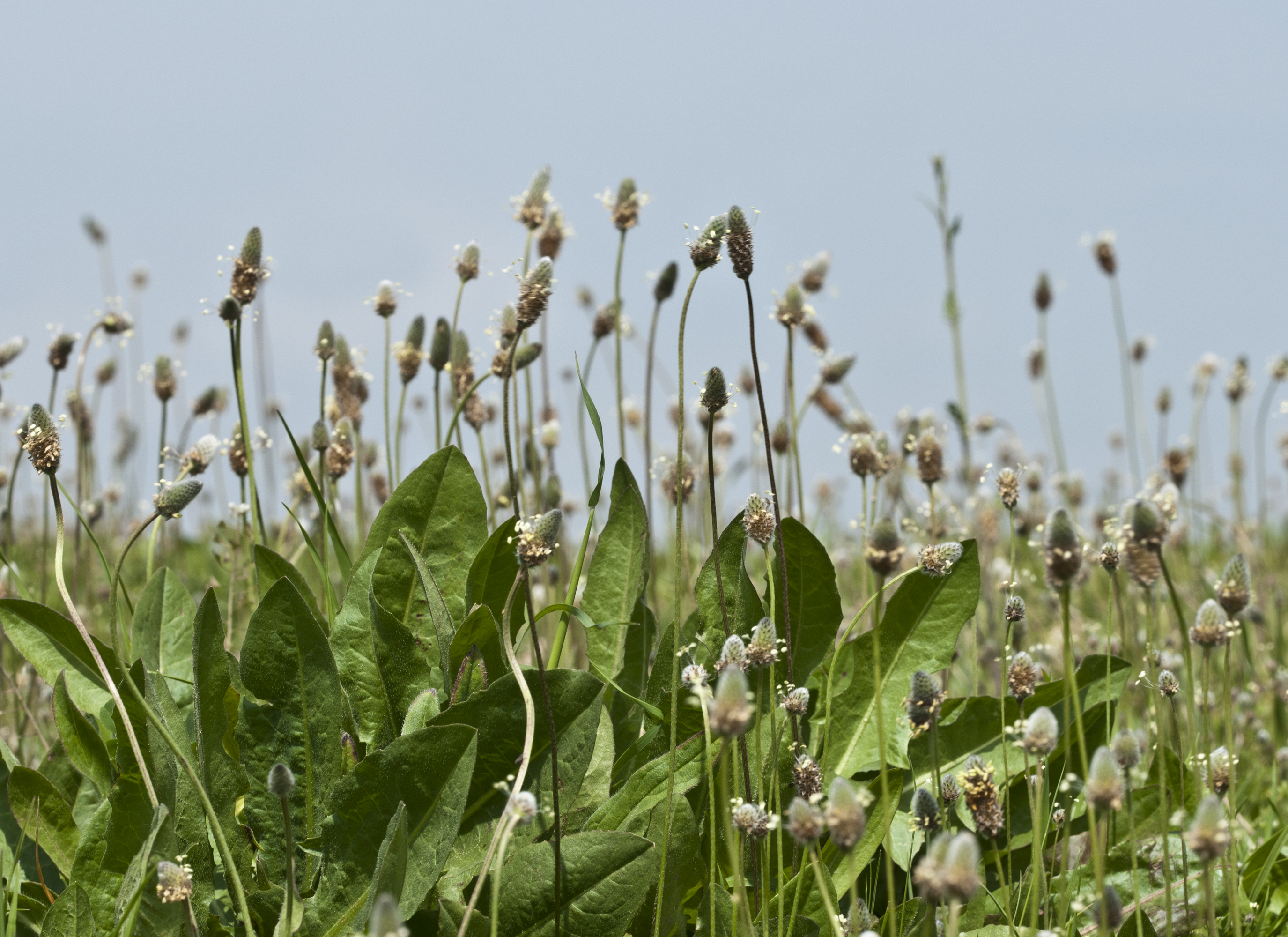 Mediterranean plantain (Plantago lagopus). Karaömerli, Sarıçam - Adana, Turkey.